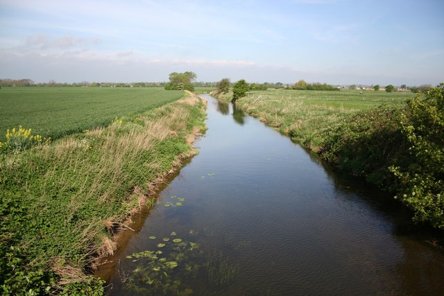 River Devon Looking downstream along the River Devon